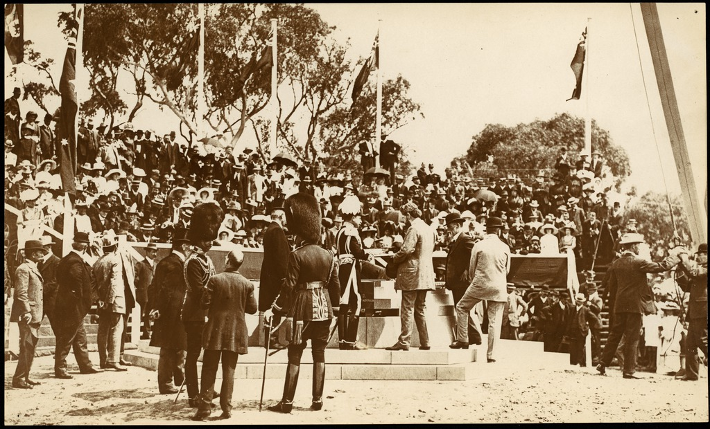 Photograph of Lord Denman, Governor-General of Australia, and members of the official party standing by the foundation stone, Naming of Canberra ceremony, 12 March 1913